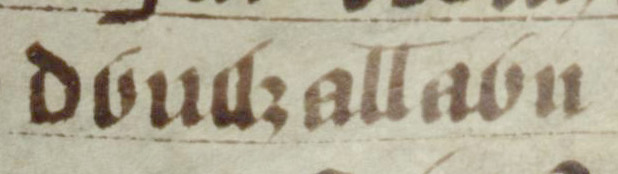 Excerpt from folio 59r of Oxford Jesus College MS 111. The excerpt appears to concern the involvement of Dyfnwal ab Owain, King of the Cumbrians (died 975).